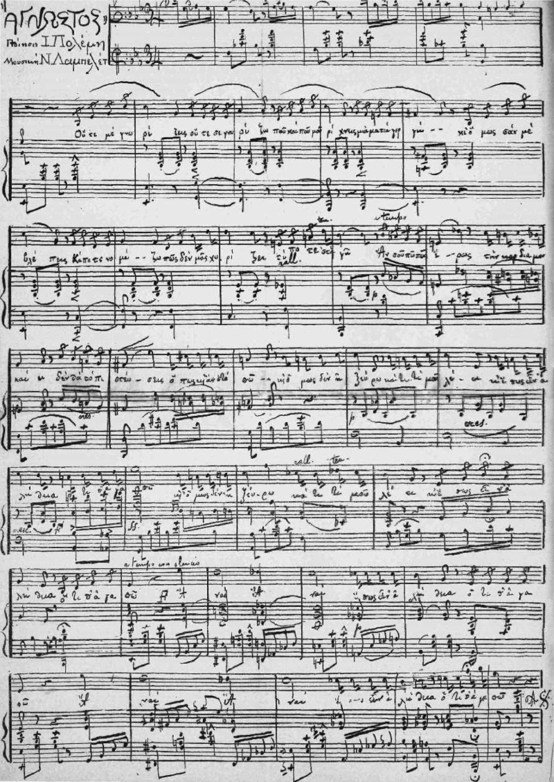 Agnostos. Song by Napoleon Lambelet